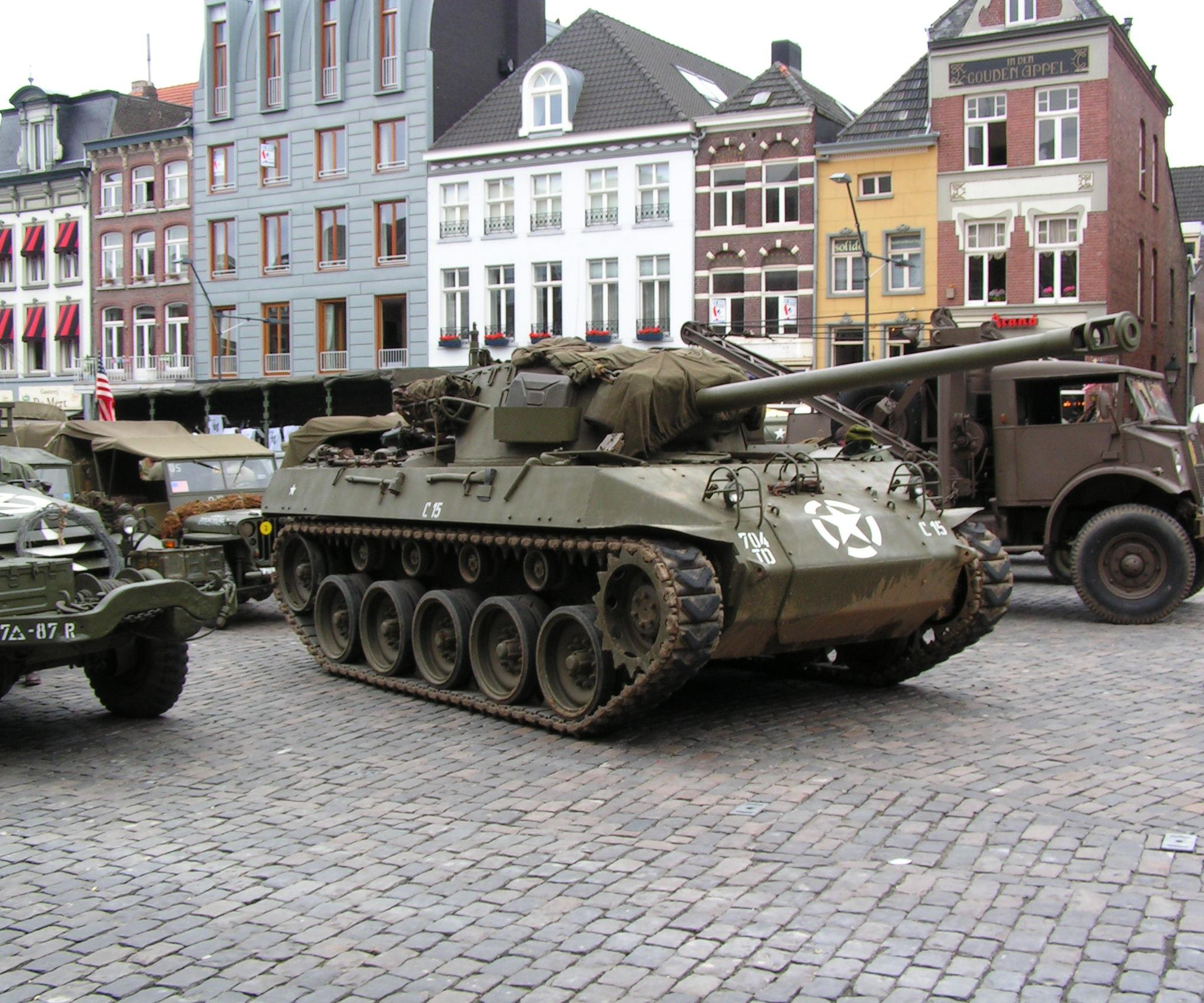 Close-up of an M18 Hellcat at the 2007 Santa Fé Event in Roermond, the Netherlands.